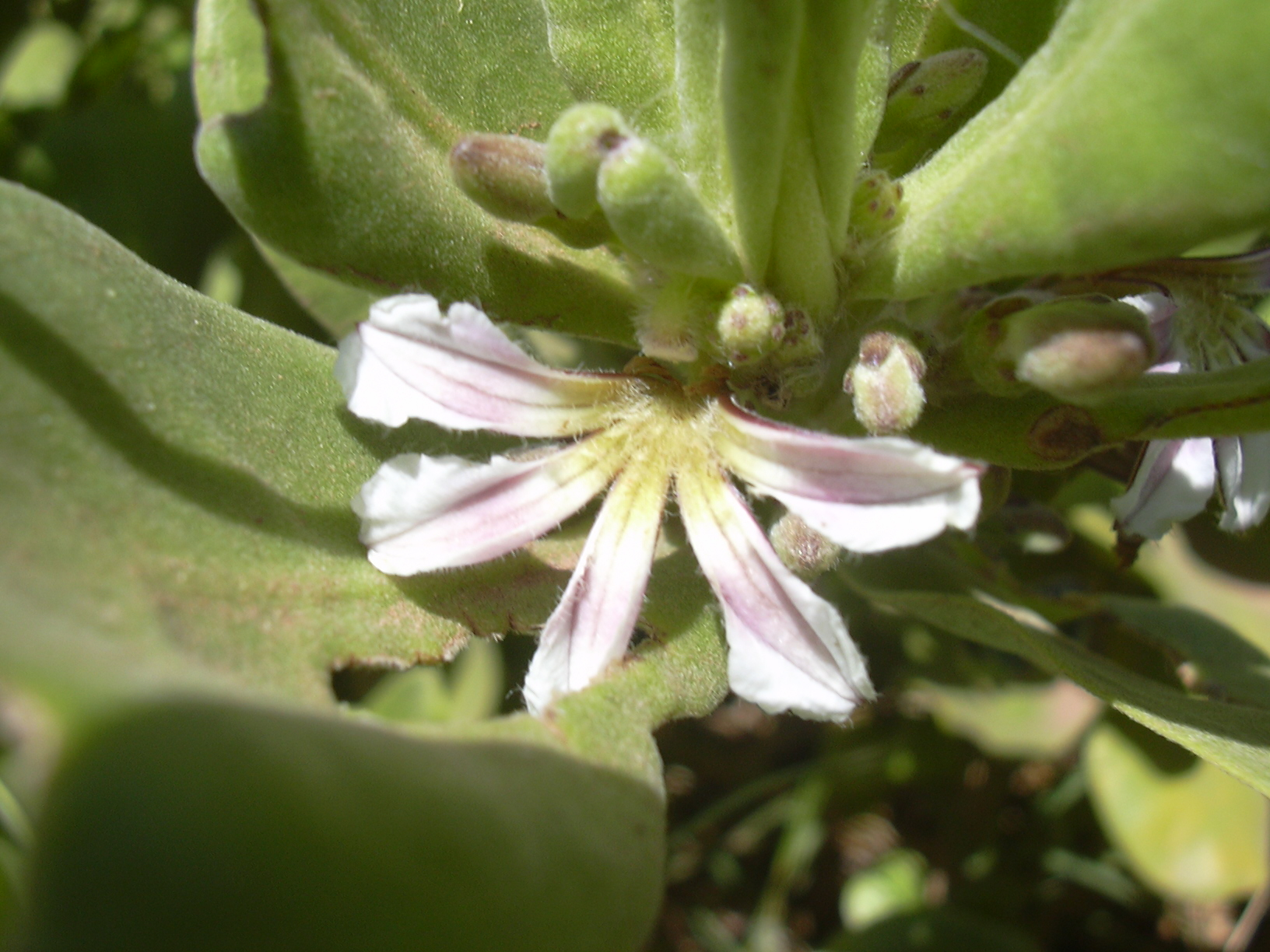 Scaevola taccada (flower). Location: Maui, Kahului